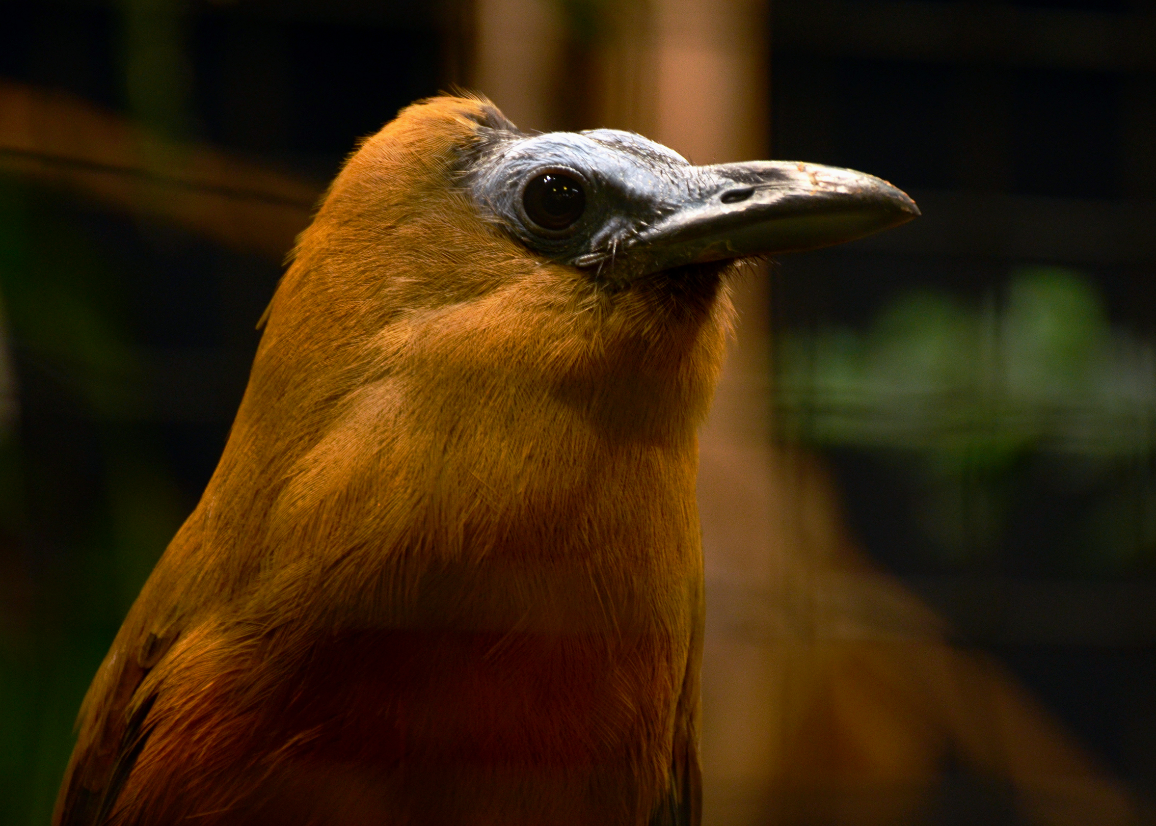 Capuchinbird ( Perissocephalus tricolor ) in the Parc des Oiseaux, in Villars-les-Dombes.